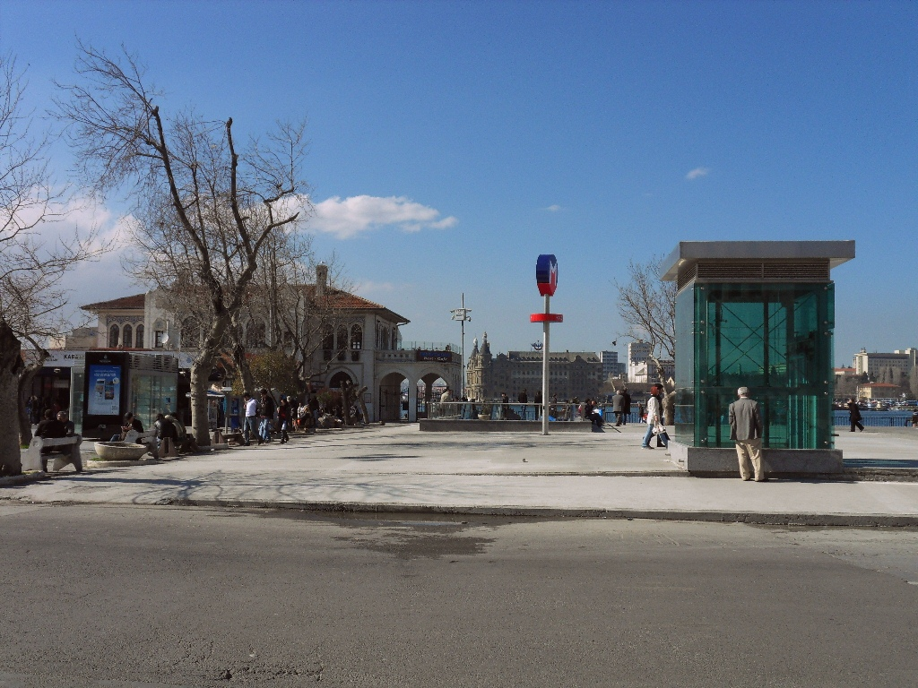 Kadıköy: Beşiktaş pier side